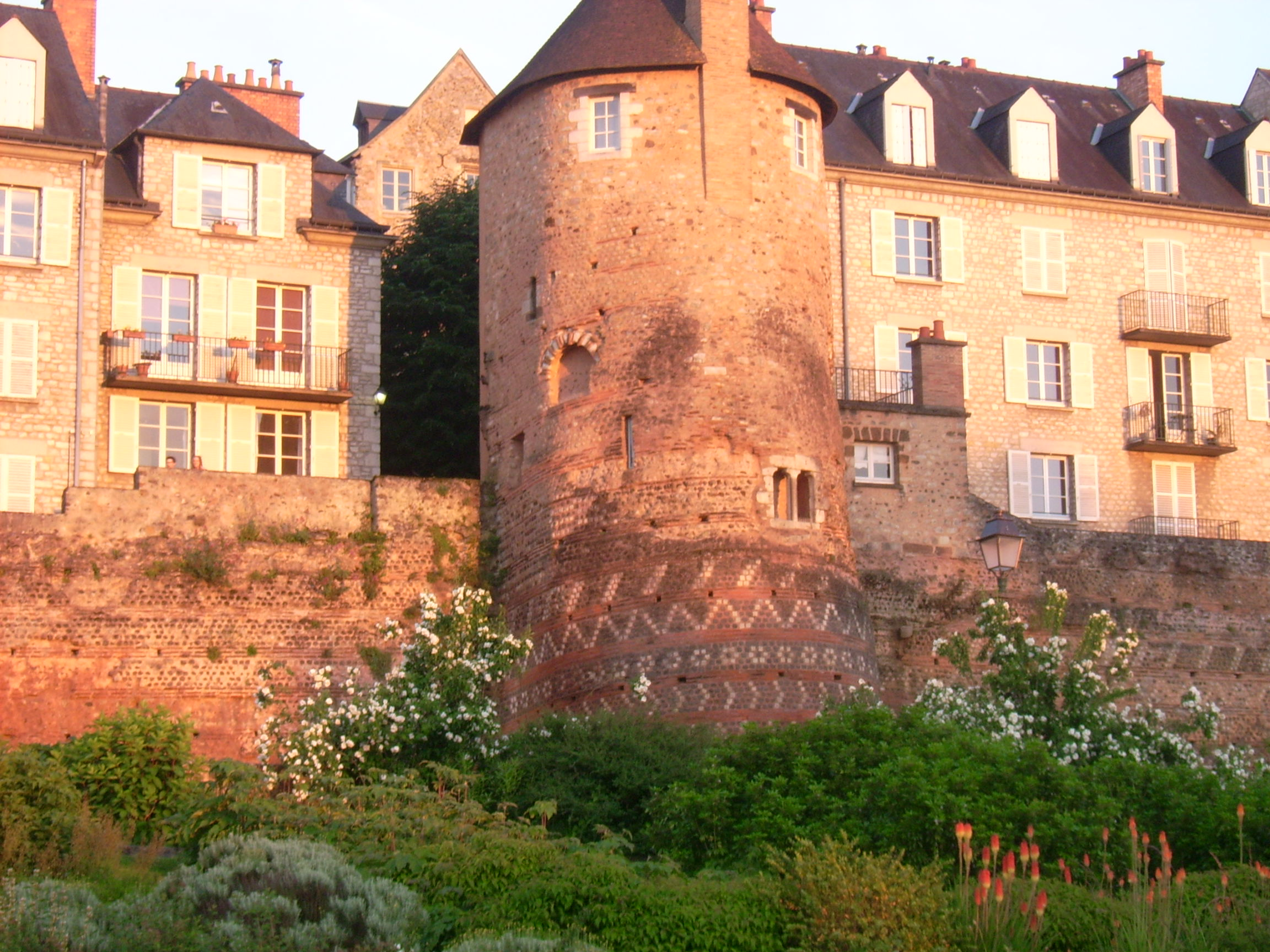 Ancient Roman defensive walls of Le Mans-France